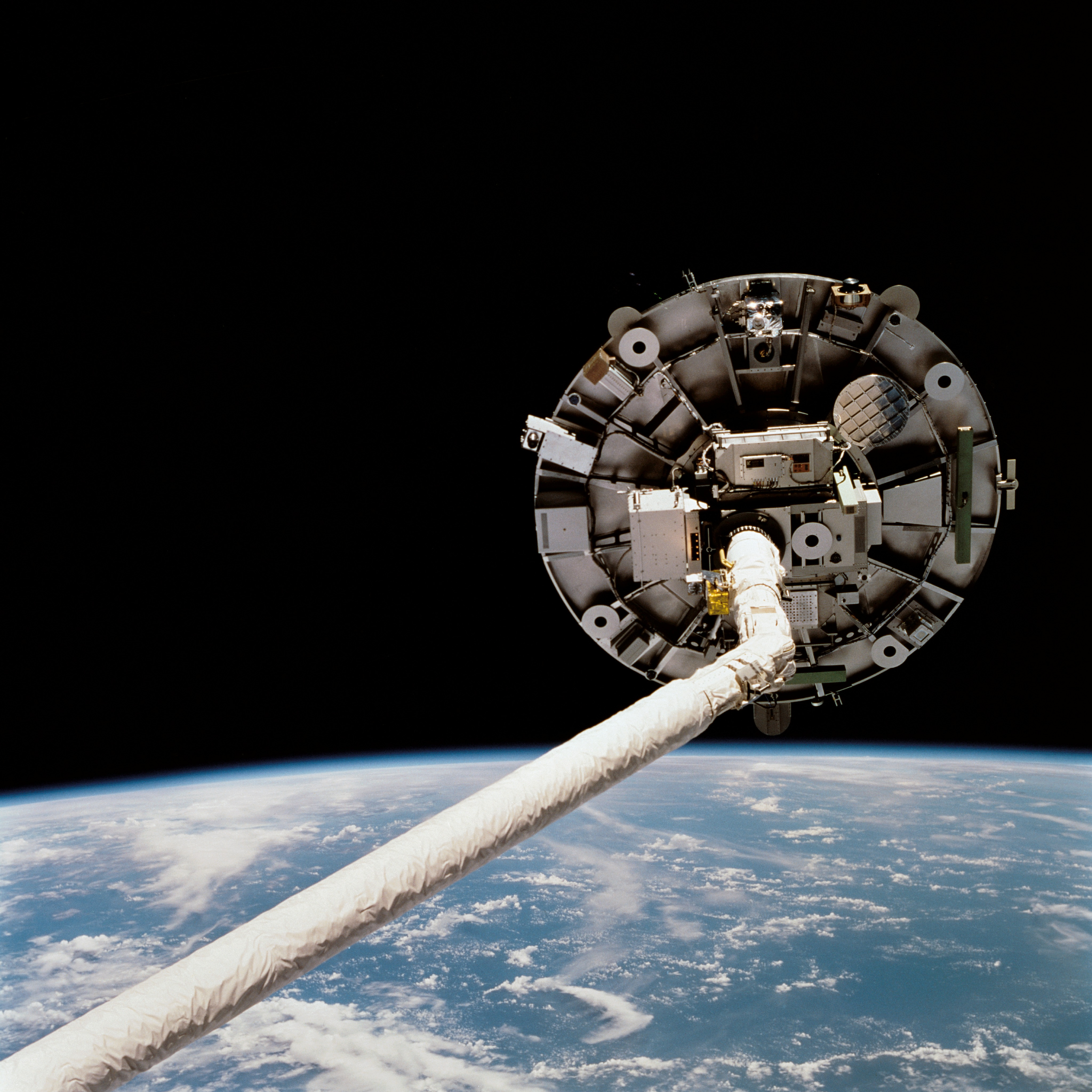 Prior to being released by Space Shuttle Endeavour’s Remote Manipulator System (RMS) for a period of time, the Wake Shield Facility (WSF) is backdropped against the darkness of space over a blue and white Earth. The picture was taken shortly after midnight Houston time on September 11, 1995. The Endeavour, with a five-member crew, launched on September 7, 1995, from the Kennedy Space Center (KSC) and ended its mission there on September 18, 1995, with a successful landing on Runway 33. The multifaceted mission carried a crew of astronauts David M. Walker, mission commander; Kenneth D. Cockrell, pilot; and James S. Voss (payload commander), James H. Newman and Michael L. Gernhardt, all mission specialists.